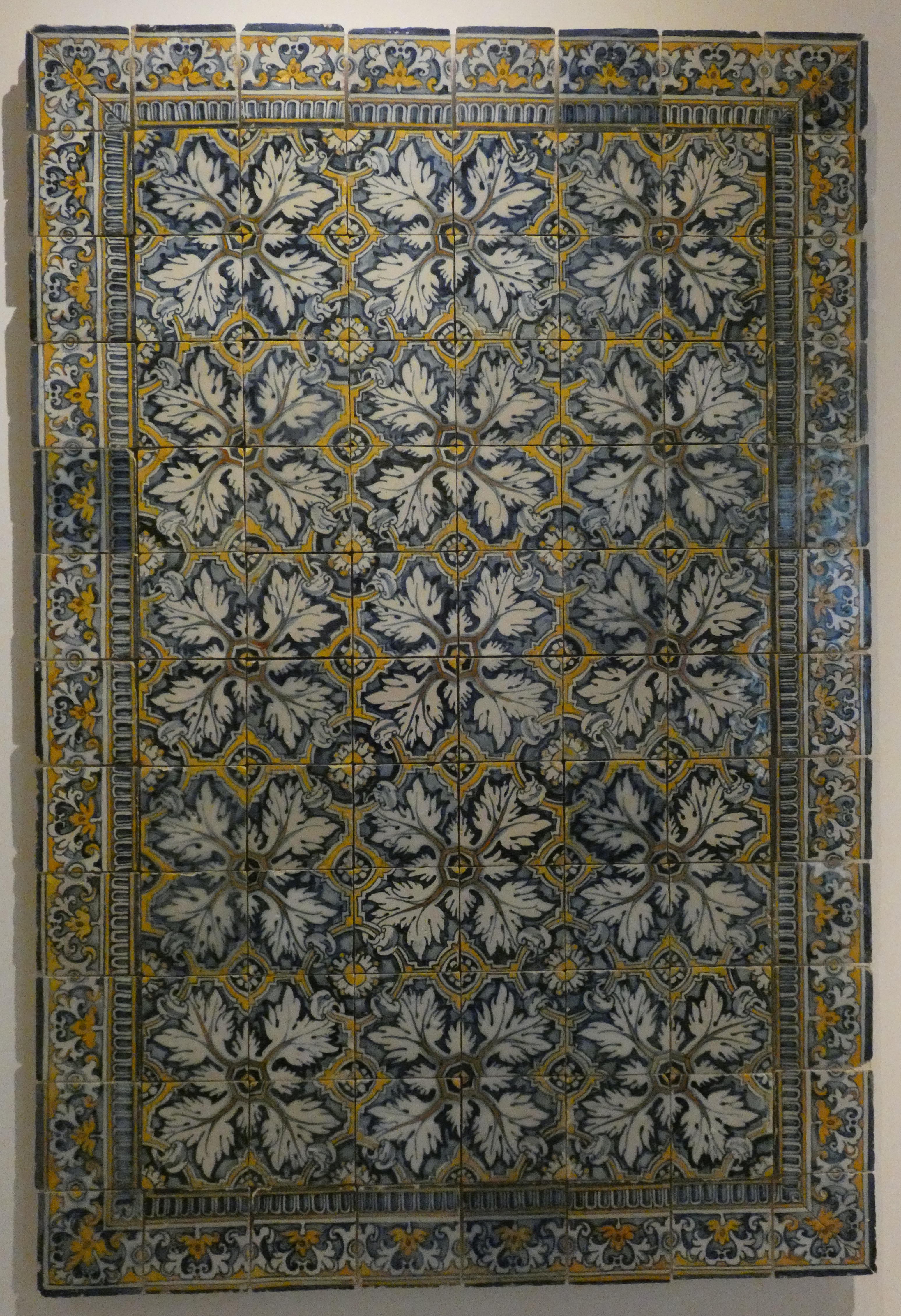 Sample Ceramics from Museu Nacional to Azulejo